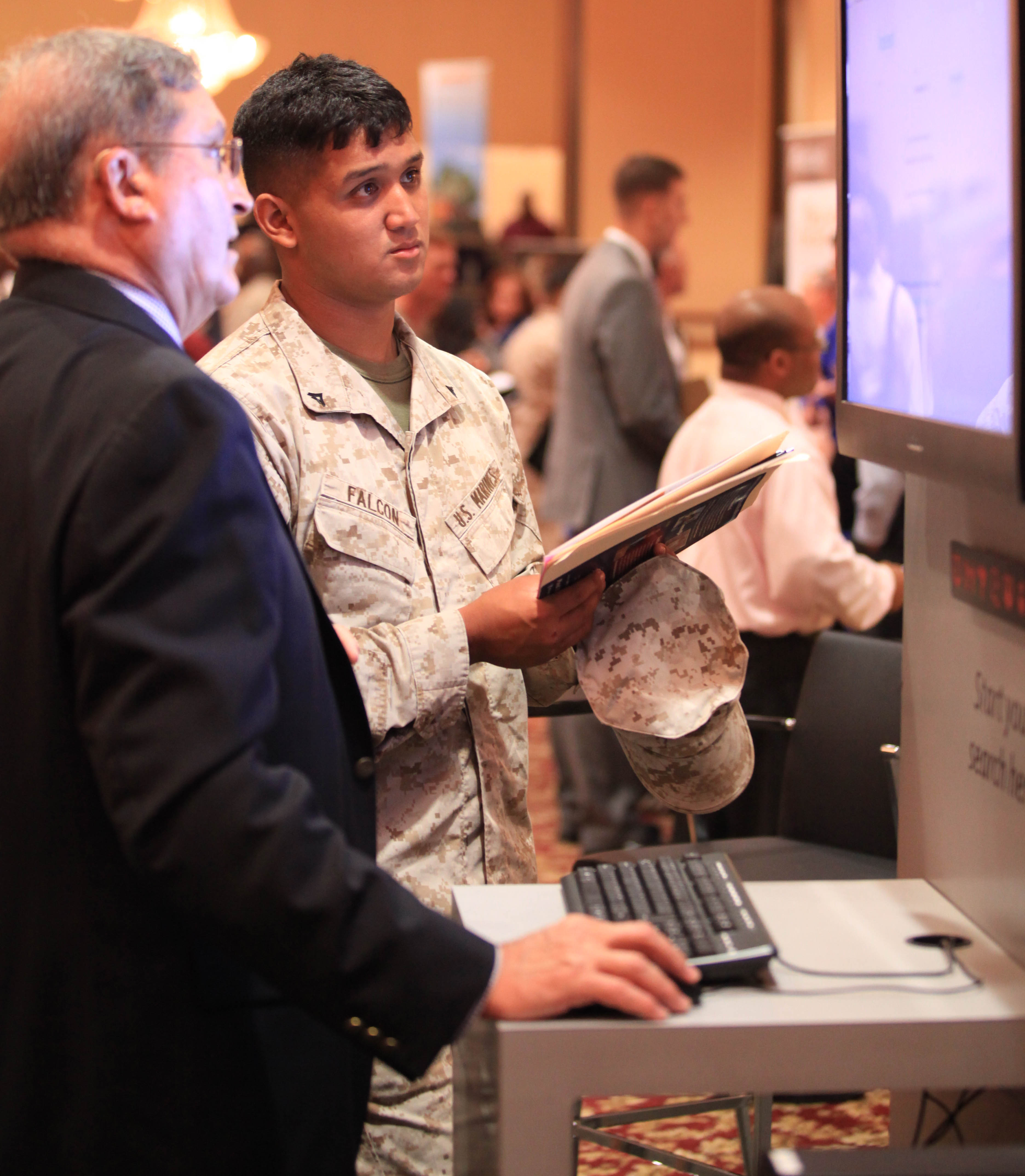 Sam Giovinazzi, an administrative support technician with the California Employers Support Guard and Reserve, aissts Lance Cpl. Nikko Falcon, a generator mechanic with 1st Intelligence Battalion, I Marine Expeditionary Force Headquarters Group, with a job search during a Hiring Our Heroes Veterans Event hosted by the U.S. Chamber of Commerce at the Pacific Views South Mesa Club here, Sept. 20. The chamber partnered with the State of California Employment Development Department, the Department of Veterans Affairs, the American Legion, the Department of Labor Veterans’ Employment & Training Services, the California National Guard and Camp Pendleton Marine Corps Community Services to put on the event.